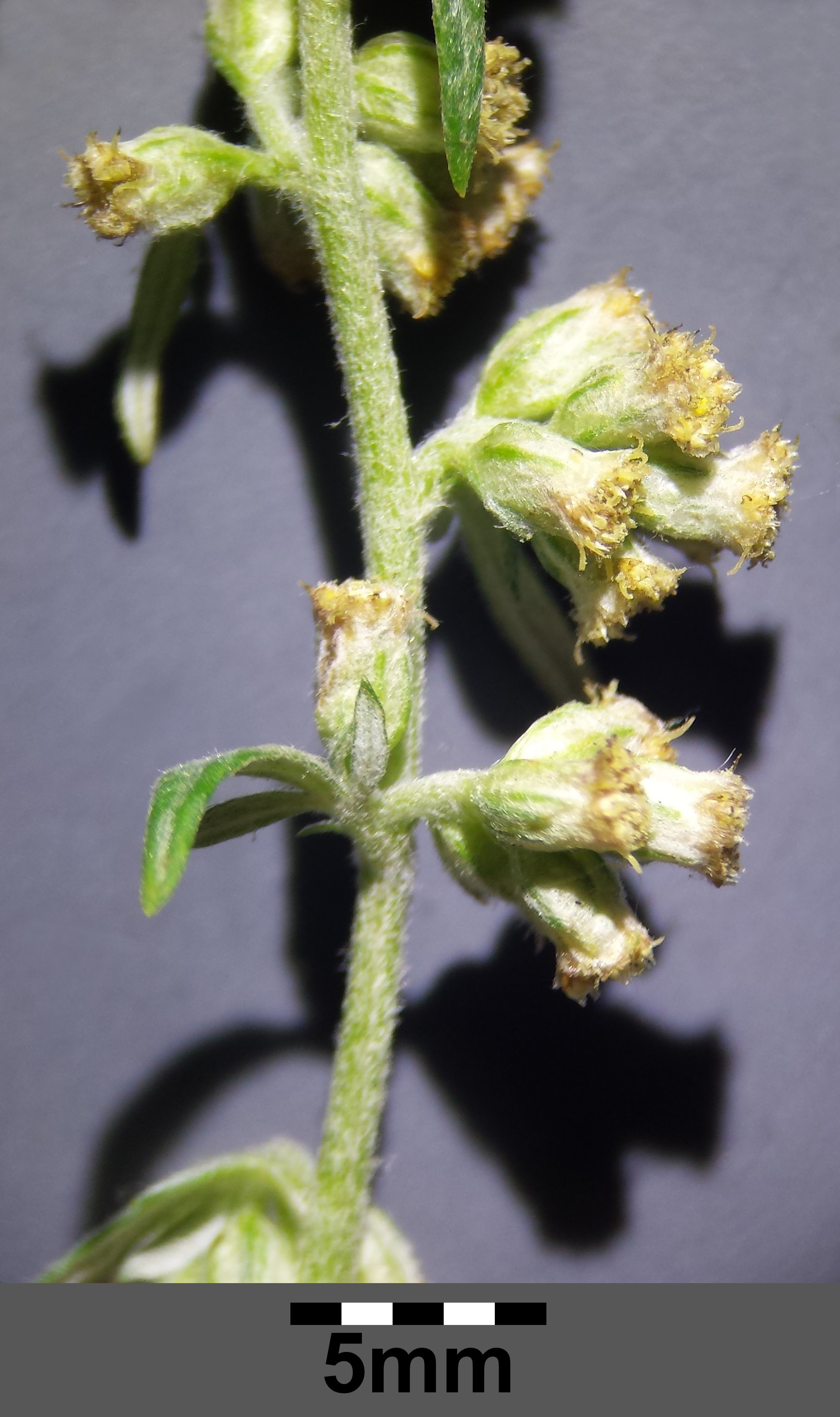 Inflorecence Taxonym: Artemisia vulgaris ss Fischer et al. EfÖLS 2008 ISBN 978-3-85474-187-9 Location: near Niederhollabrunn, district Korneuburg, Lower Austria - ca. 350 m a.s.l. Habitat: ruderal area